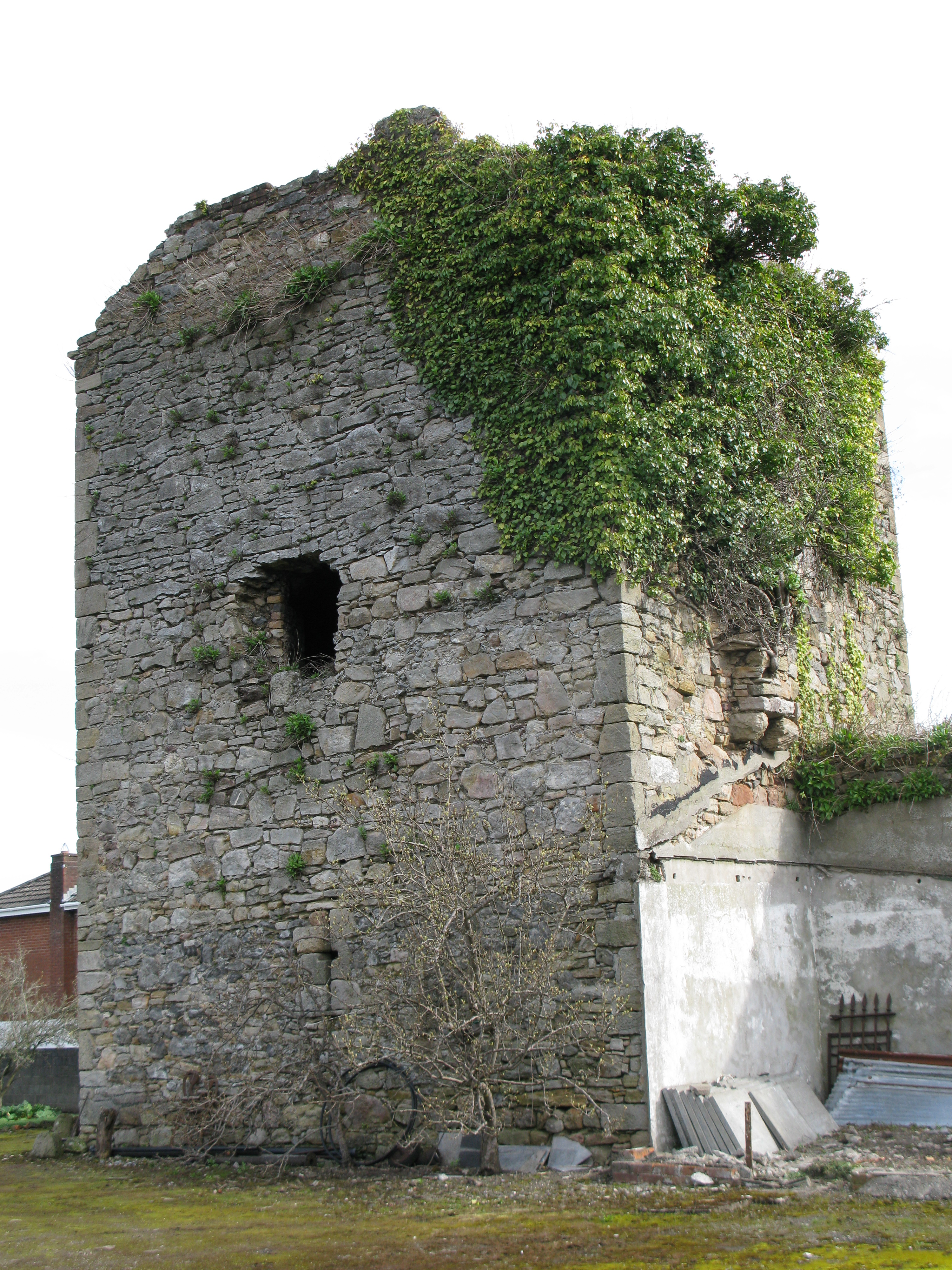 Original tower at Clonmel historic wall. Located to rear (west) of Old St. Mary's Church.